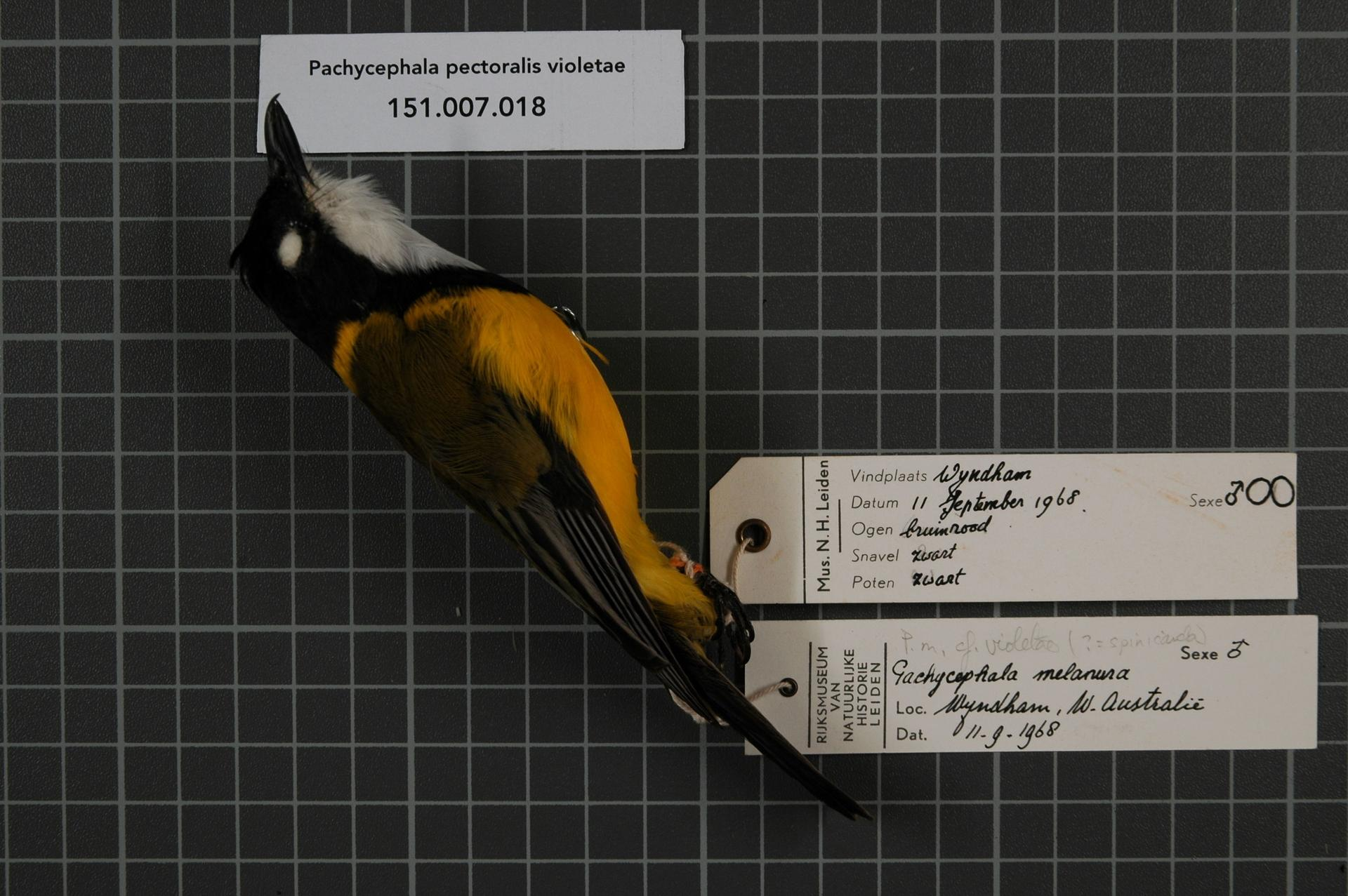 Pachycephala pectoralis violetae Mathews, 1912